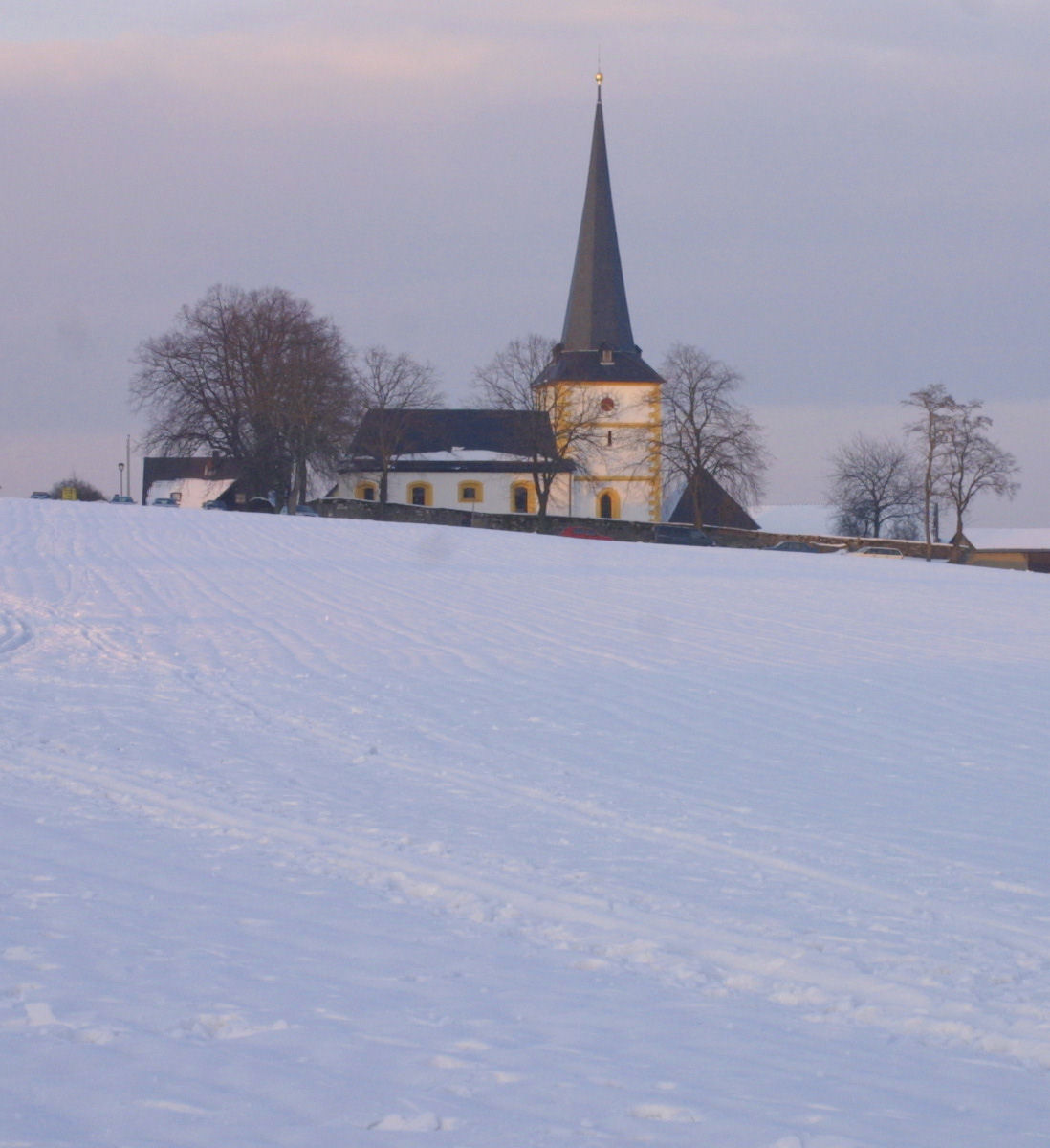 village church of Teuchatz in Franconia